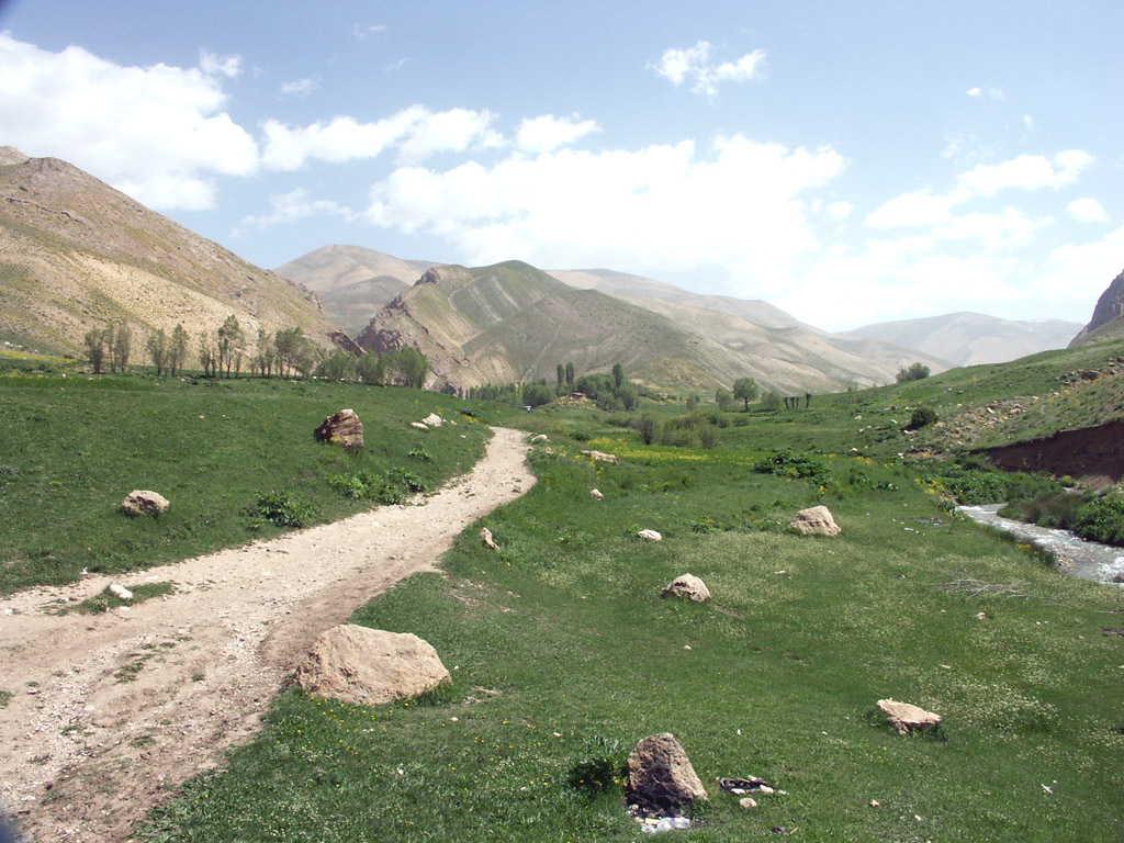 Tang e Vashi (Tange Vashi), Firuzkuh county, Tehran province, Alborz mountain range. This is the sight you get after passing the first canyon.Tang e Vashi 2